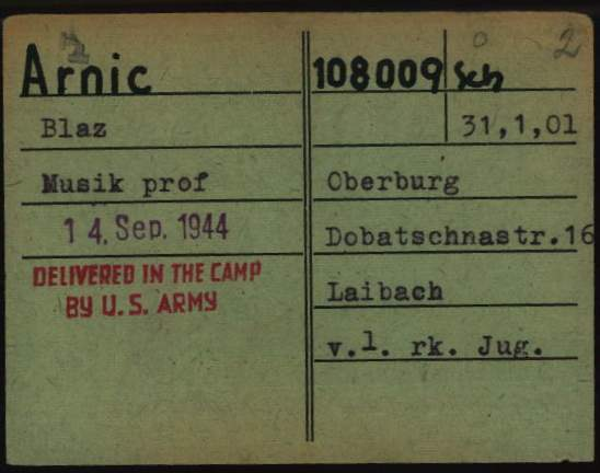 Registration card of Blaž Arnič as a prisoner at Dachau Nazi Concentration Camp. Red stamp means he was liberated from Dachau by the U. S. Army.